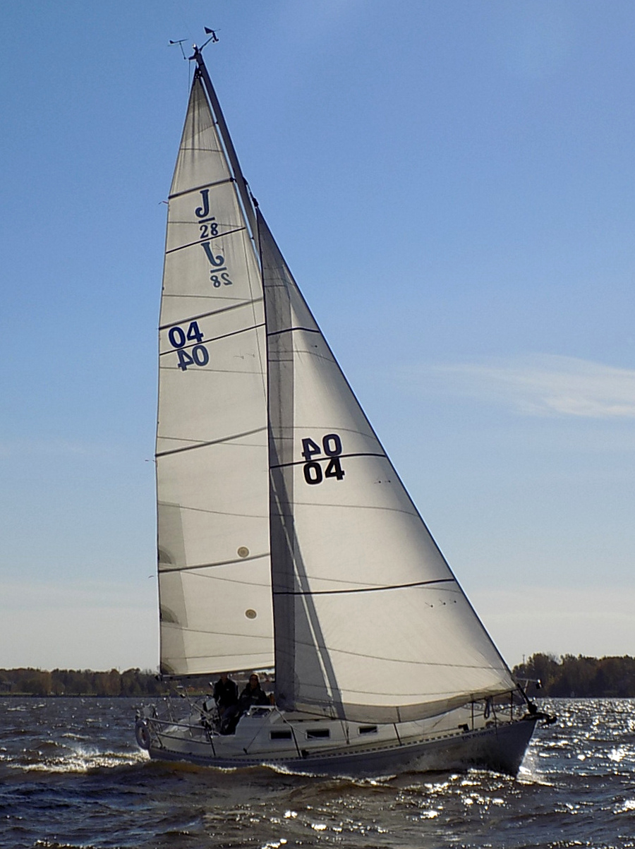 A J/28 sailboat named Horizon Job.